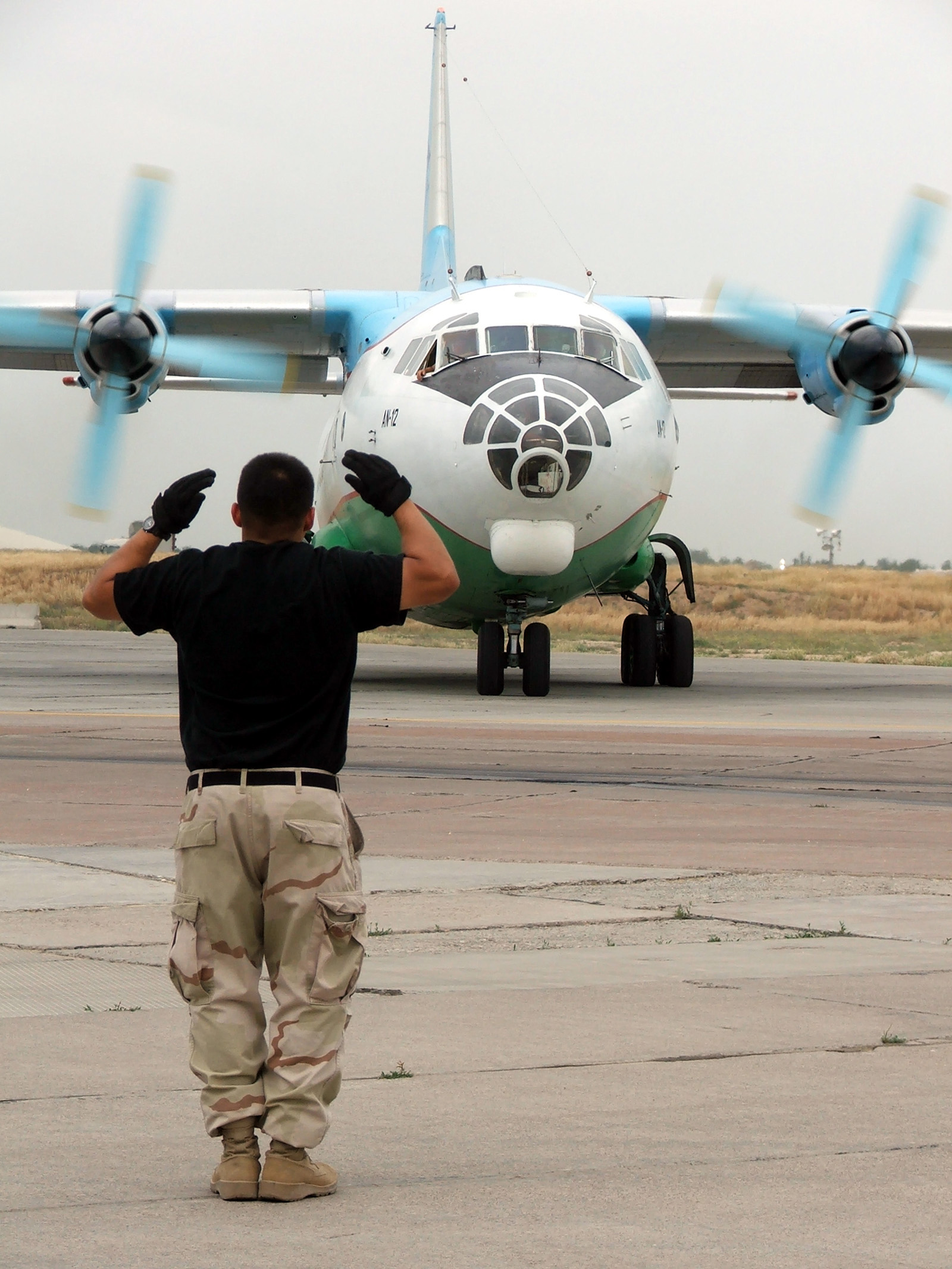 Staff Sgt. Sammy Ayala gives directions to the crew of a Russian-built AN-12 cargo plane here May 2. He is a transient alert Airman and KC-10 Extender crew chief with the 416th Air Expeditionary Group's transient alert flight at KARSHI-KHANABAD AIR BASE, Uzbekistan.